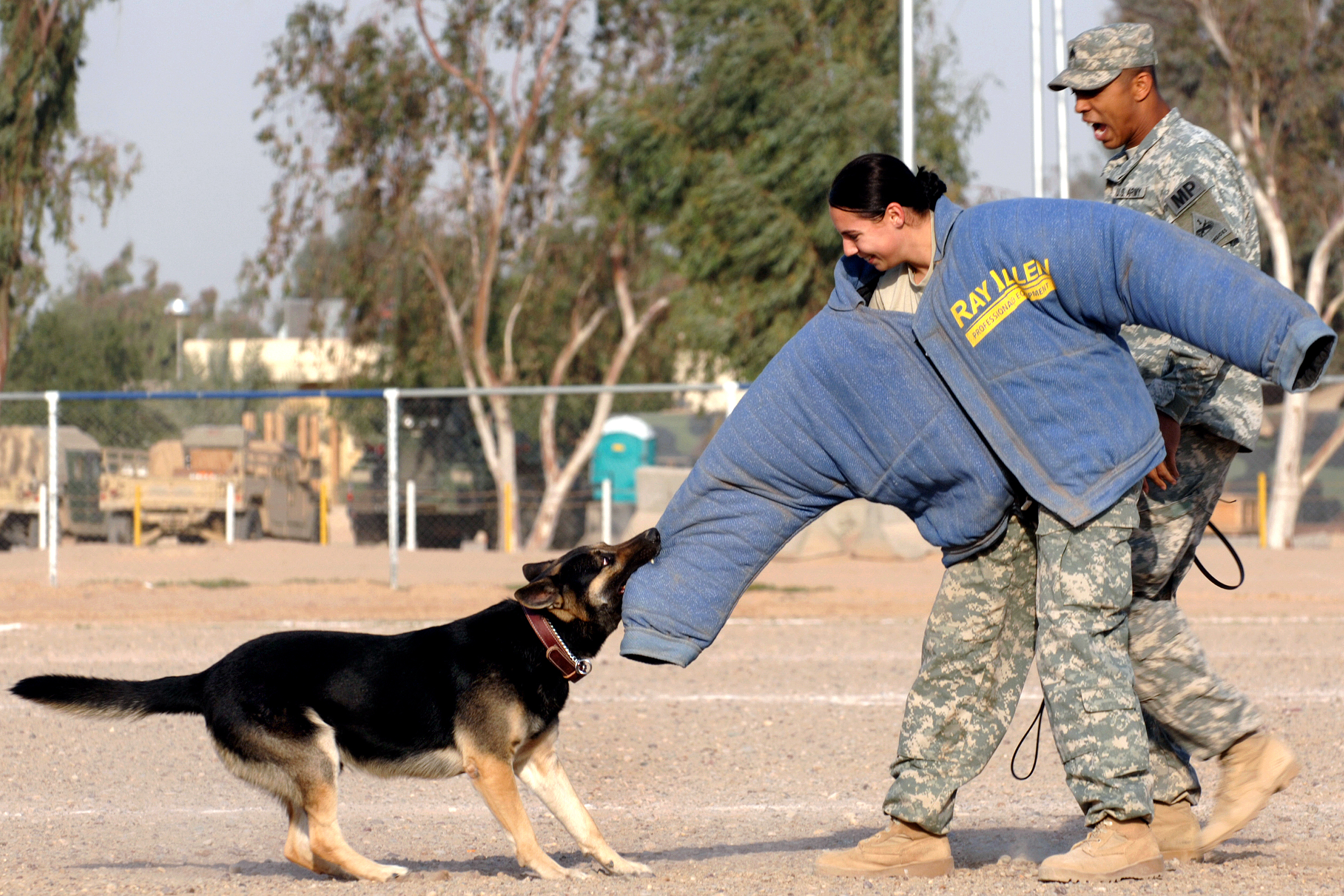 U.S. Army Spc. Alysha Clark, a veterinary technician deployed from Fort Hood, Texas, wears a protective bite suit while helping train Nol, a military working dog, at Joint Base Balad, Iraq, Dec. 30, 2008, as Sgt. Alshawn Johnson, a military working dog handler with the 25th Infantry Division, yells a command. Johnson is deployed from Fort Huachuca, Ariz. (U.S. Air Force photo by Tech. Sgt. Erik Gudmundson/Released)